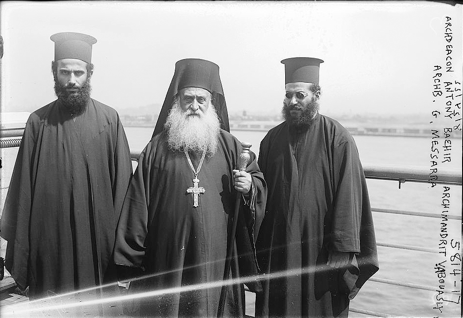 The founders of the Antiochian Orthodox Christian Archdiocese of North America, Archdeacon Anthony (Bashir), Metropolitan Gerasimos (Messara), and Archimandrite Victor (Abo-Assaley). This photo was taken in New York in 1923. Gerasimos founded the archdiocese the next year on behalf of the patriarchate, putting Victor in charge as its first metropolitan. Antony would succeed him in 1936.